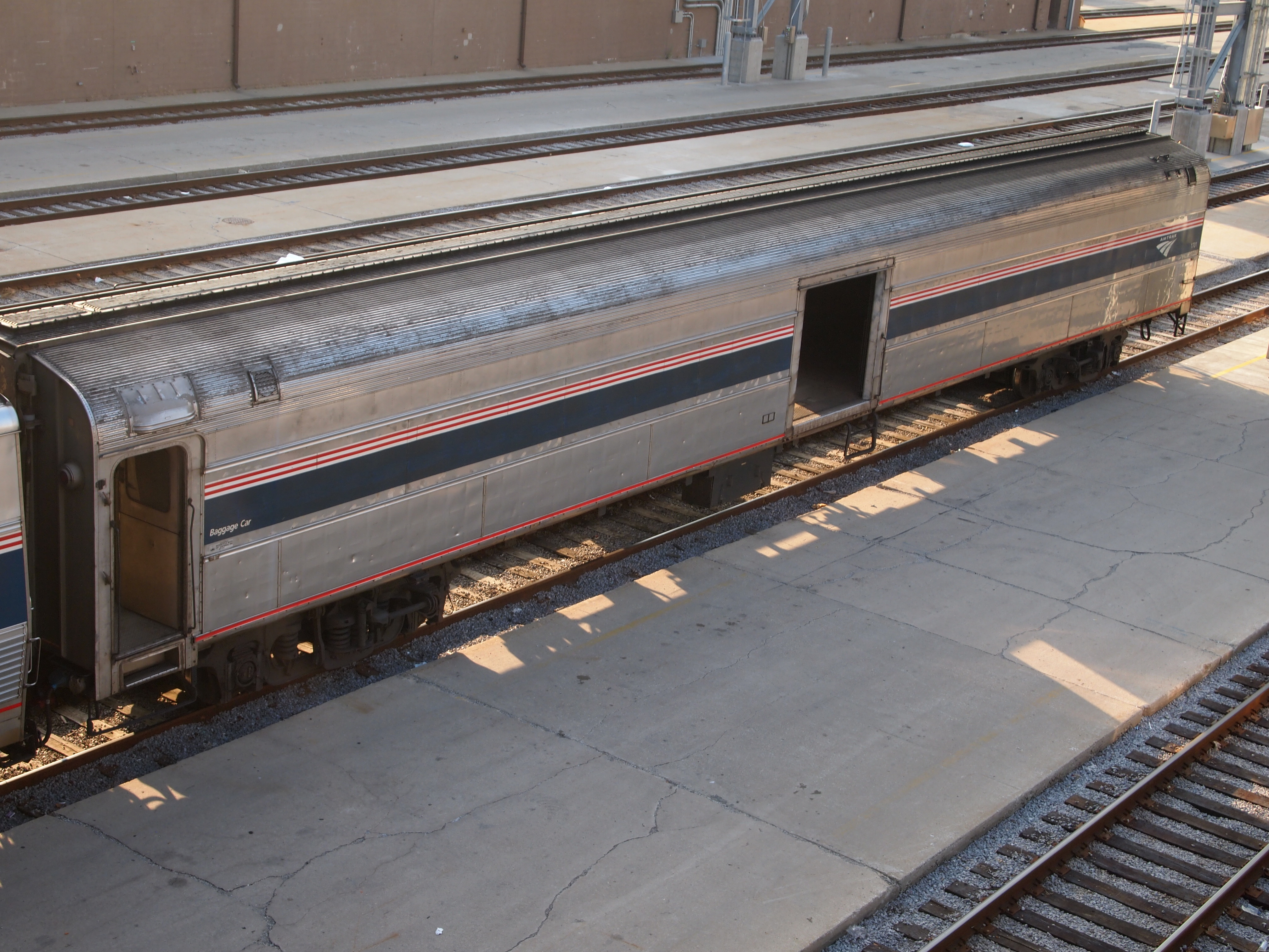 That's where the drifters jump in like in the old-timey movies.